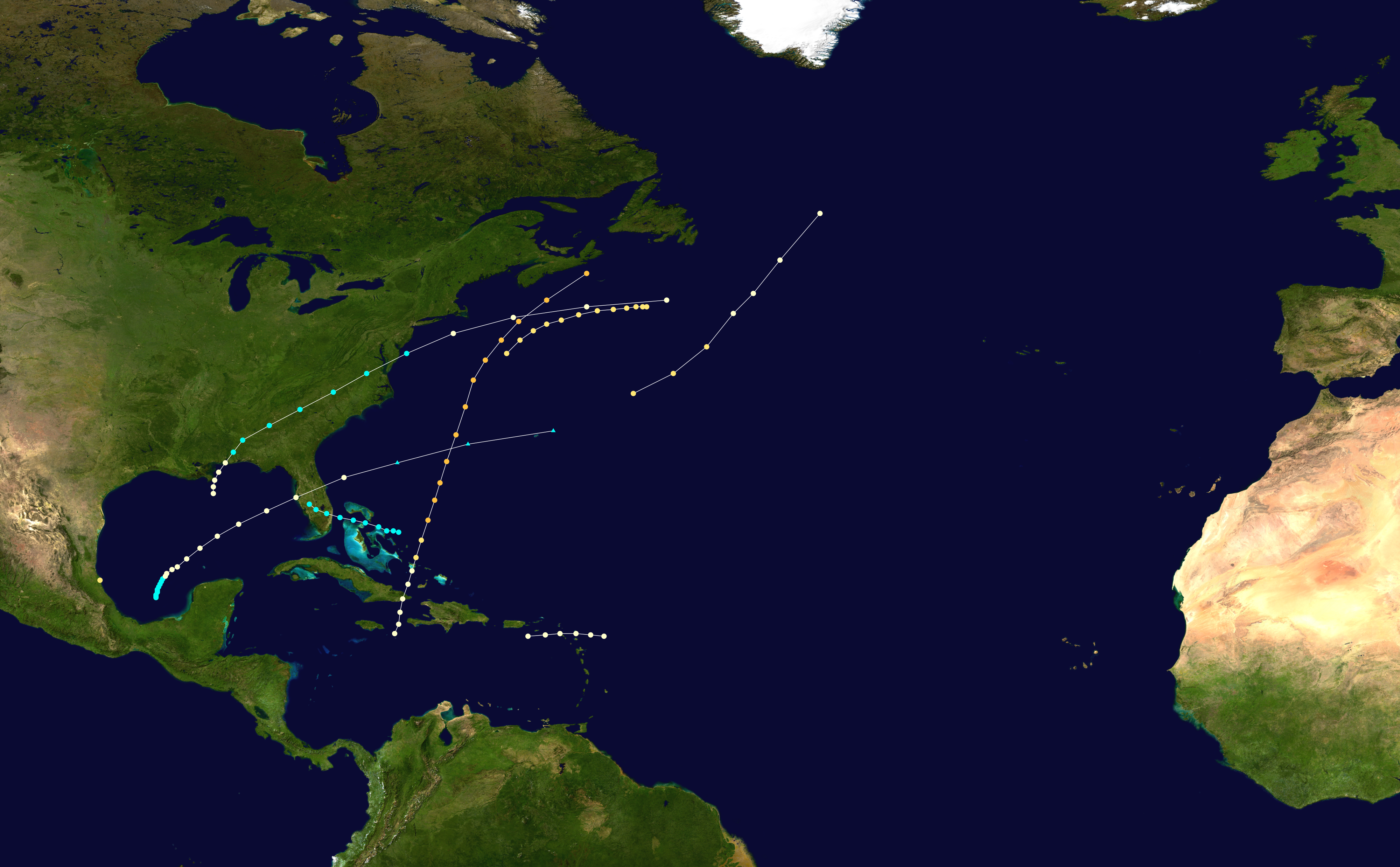 Track map of all storms of the 1859 Atlantic hurricane season. The points show the location of the storm at 6-hour intervals. The colour represents the storm's maximum sustained wind speeds as classified in the Saffir–Simpson hurricane wind scale (see below), and the shape of the data points represent the nature of the storm, according to the legend below. Saffir–Simpson hurricane wind scale Tropical depression≤38 mph≤62 km/h Category 3111–129 mph178–208 km/h Tropical storm39–73 mph63–118 km/h Category 4130–156 mph209–251 km/h Category 174–95 mph119–153 km/h Category 5≥157 mph≥252 km/h Category 296–110 mph154–177 km/h Unknown Storm typeTropical cycloneSubtropical cycloneExtratropical cyclone / Remnant low / Tropical disturbance